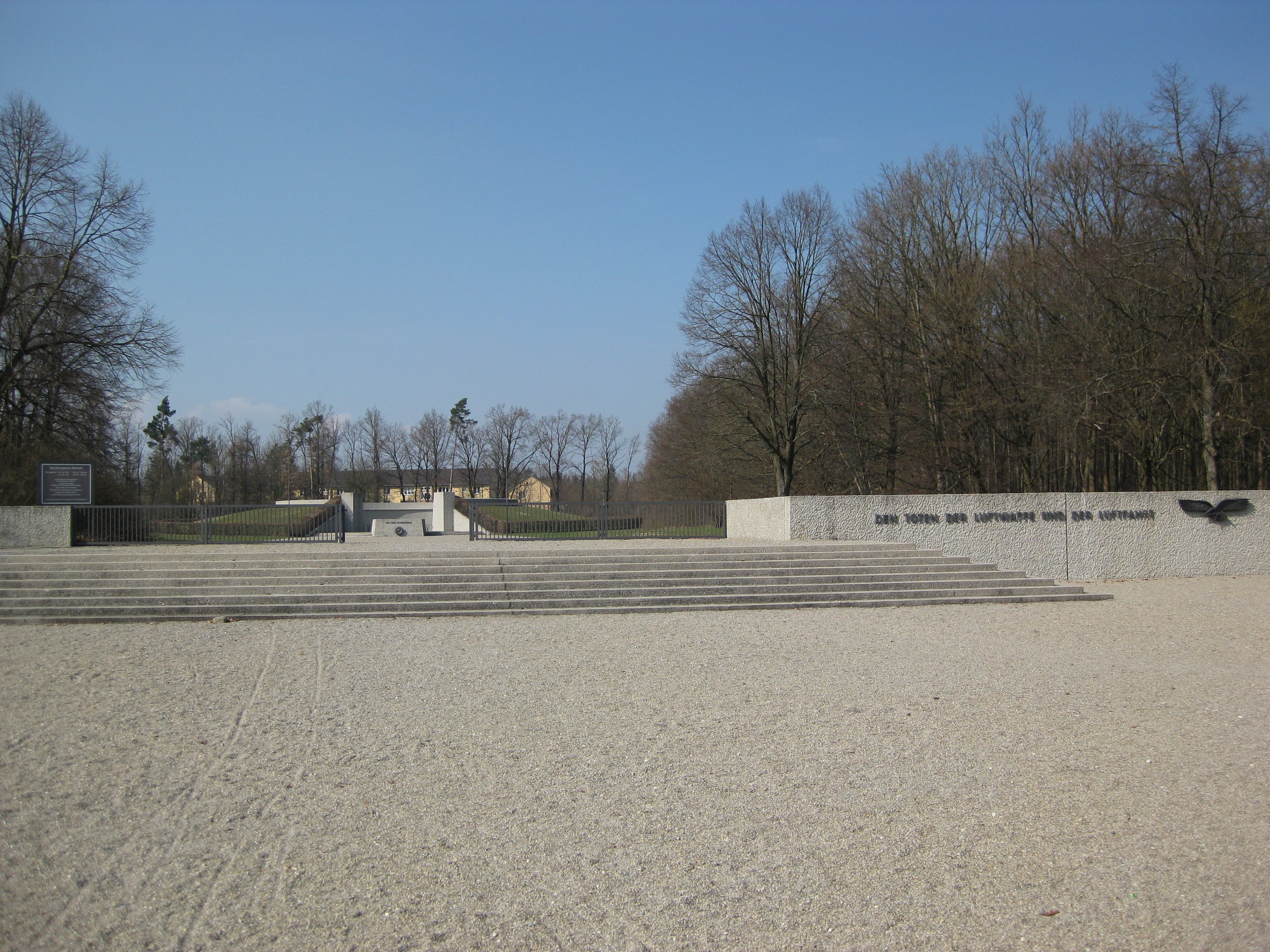 German Air Force Memorial (Entry; outside view)